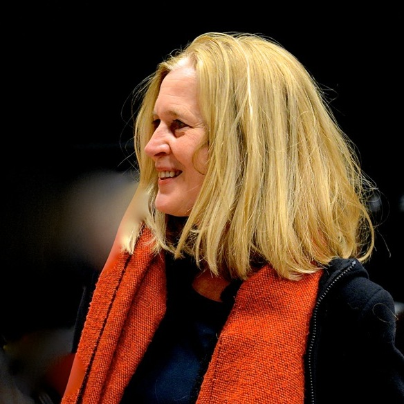 Uladzimir Niakliaew February 25, 2014 in Stockholm when he receives Tucholsky Prize by Swedish PEN.